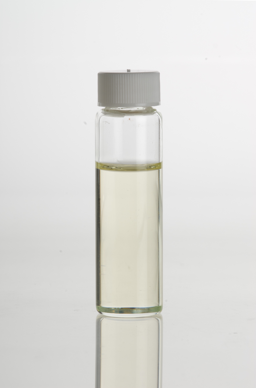 Oleic Sunflower (Helianthus annuus) Seed Oil in clear glass vial